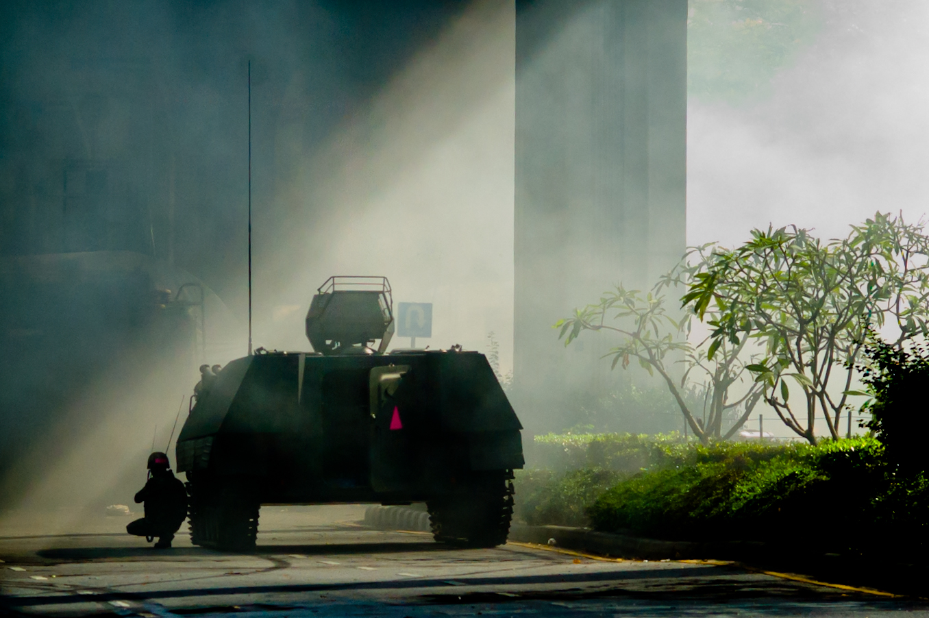 A Type-85 AFV reconoiters the Red Shirt barricade at Chulalongkorn Hospital, accompanied by a Signal Corps soldier with a portable radio unit.